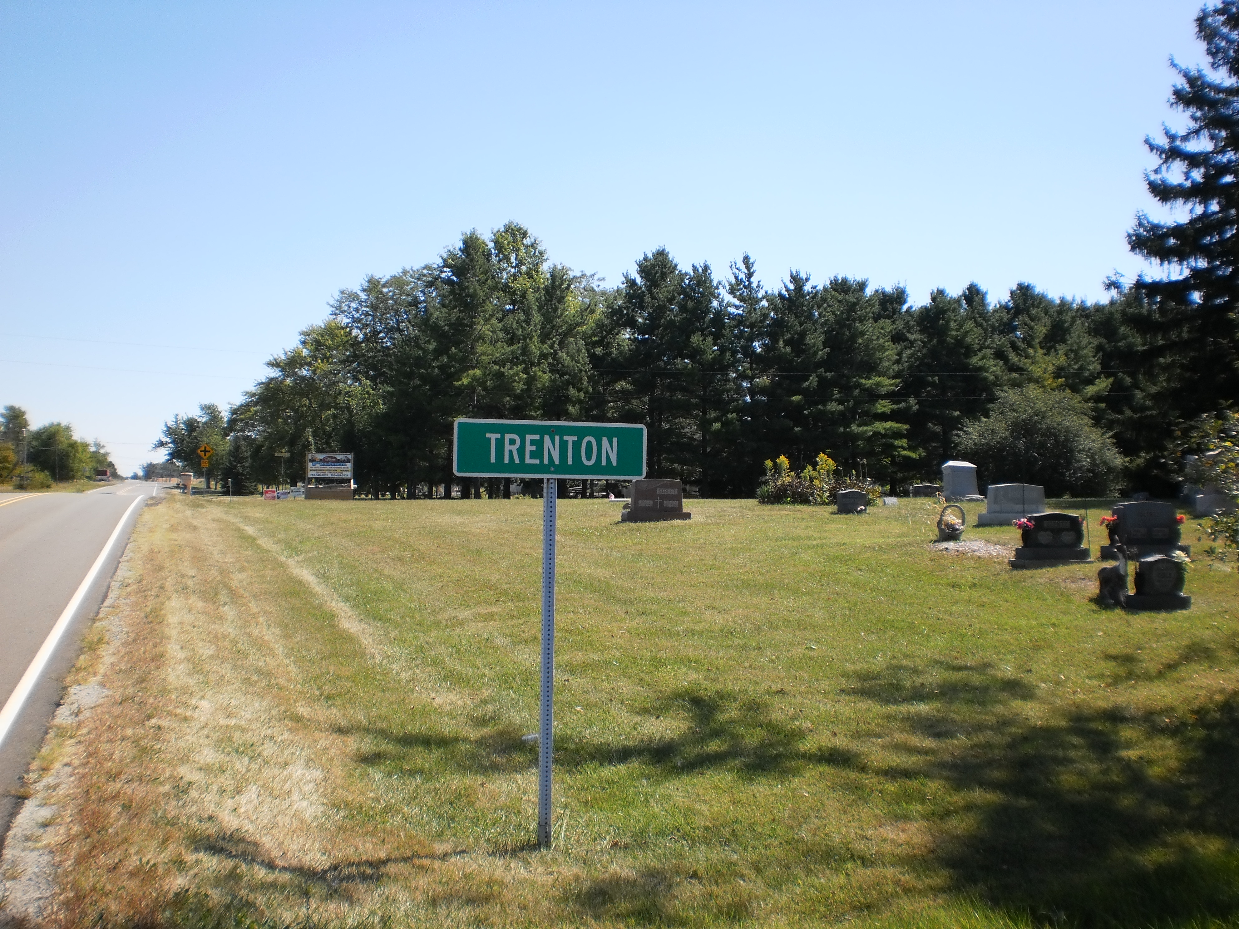 Blackford County village of Trenton Indiana